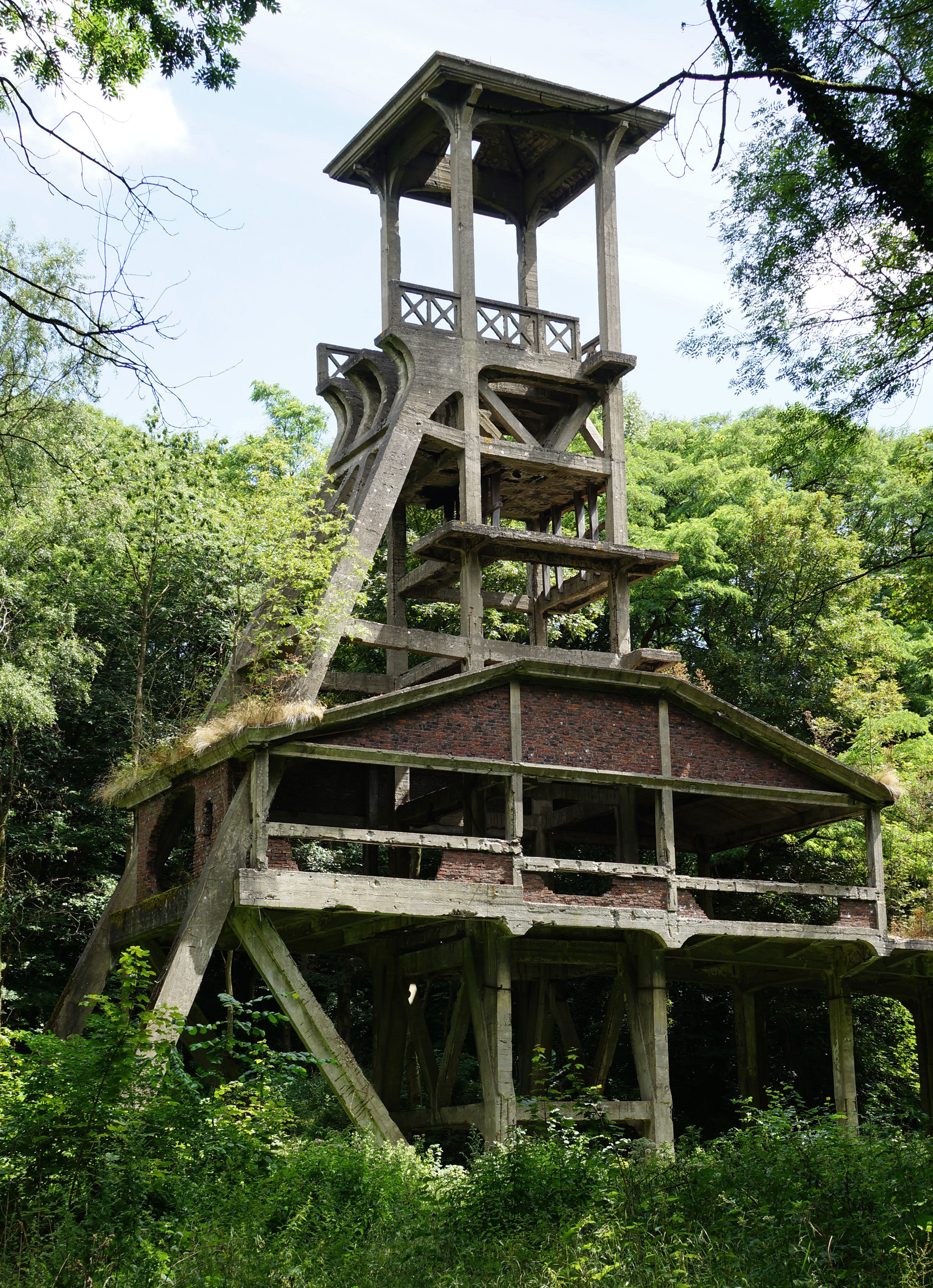 Coal mine of Sauwartan.